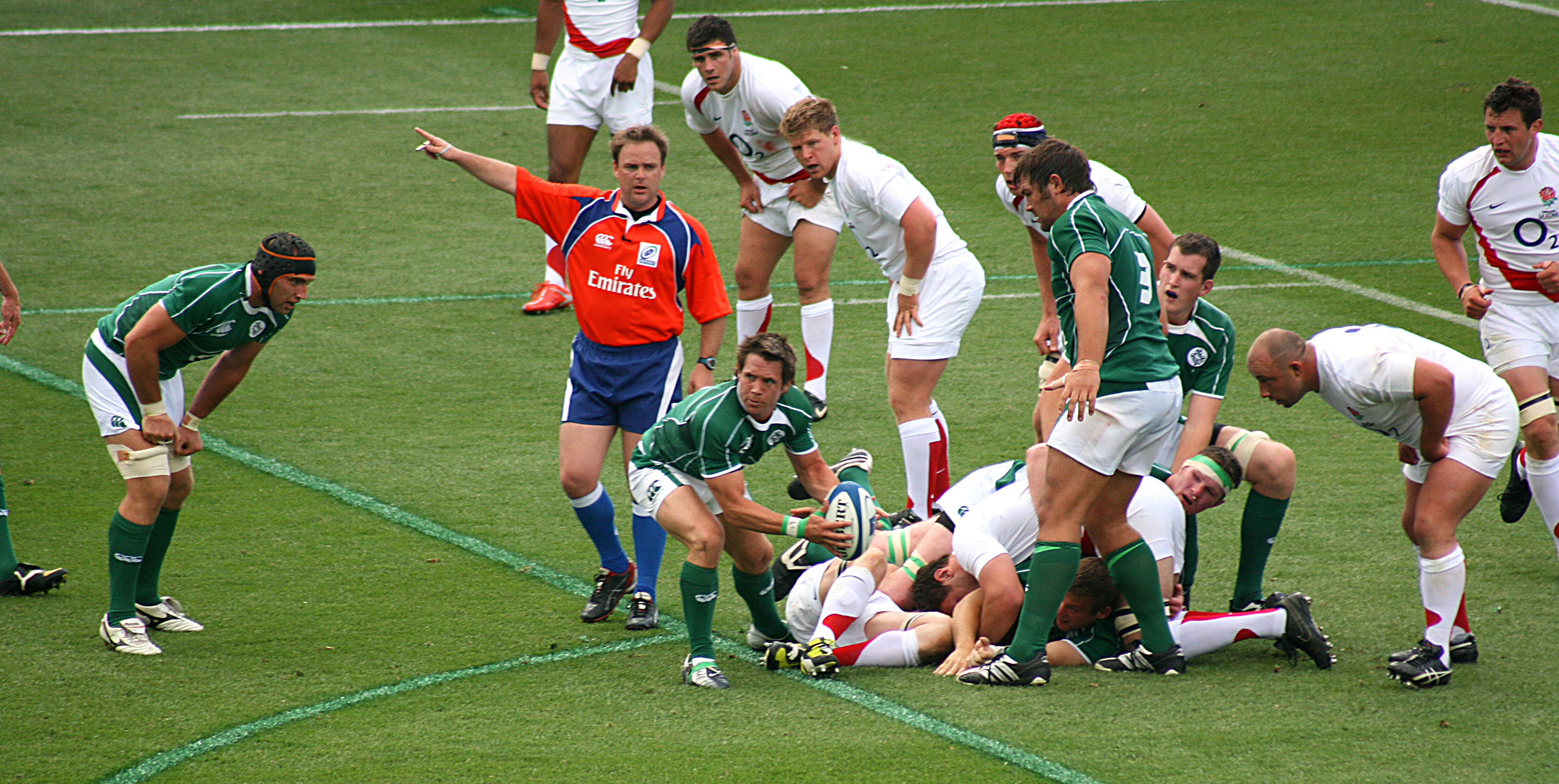 England Saxon - Ireland Wolfhounds, Churchill Cup 2009 in Commerce City, Colorado, USA. Isaac Boss passing the ball